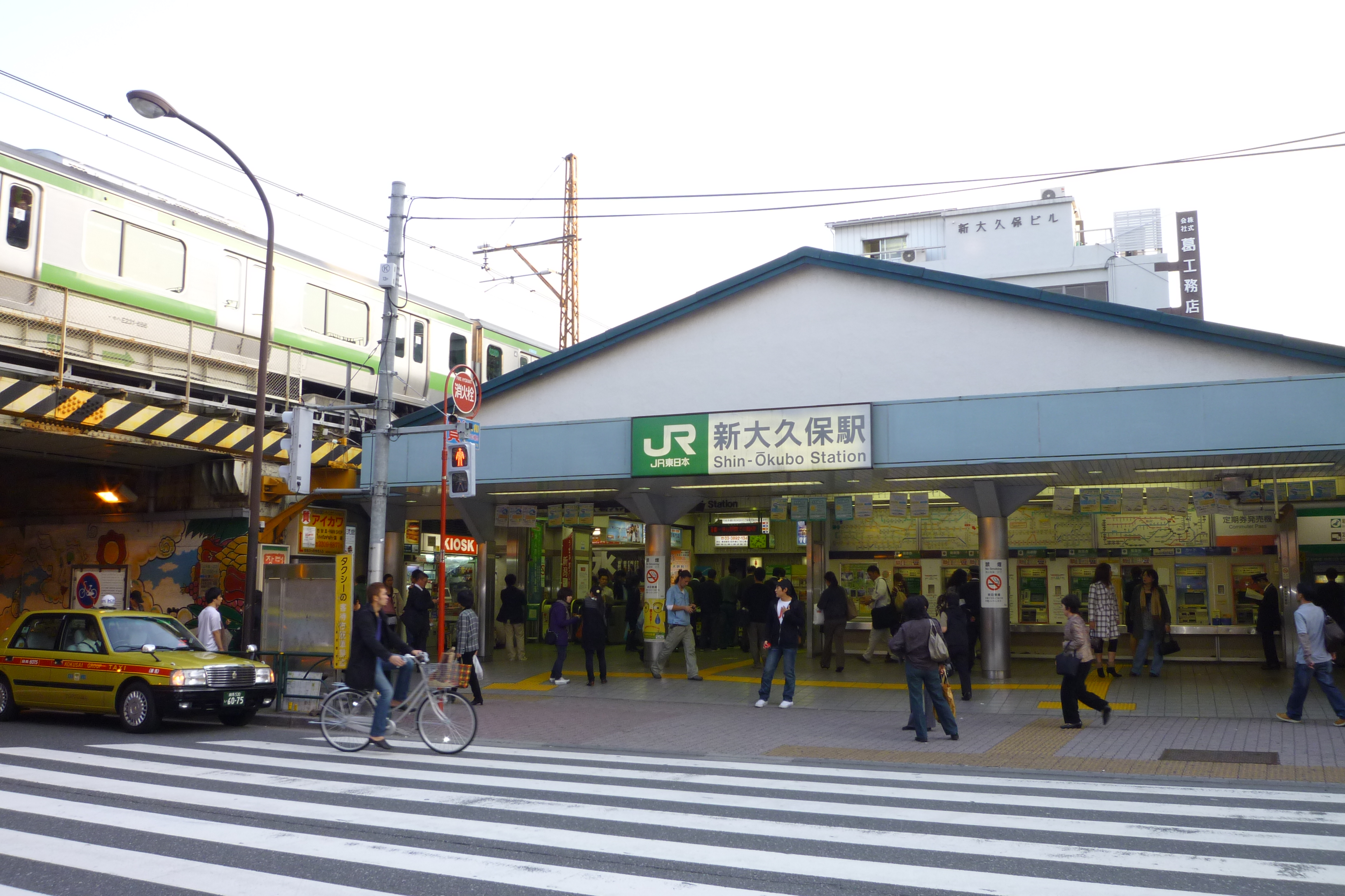 Shinokubo Station